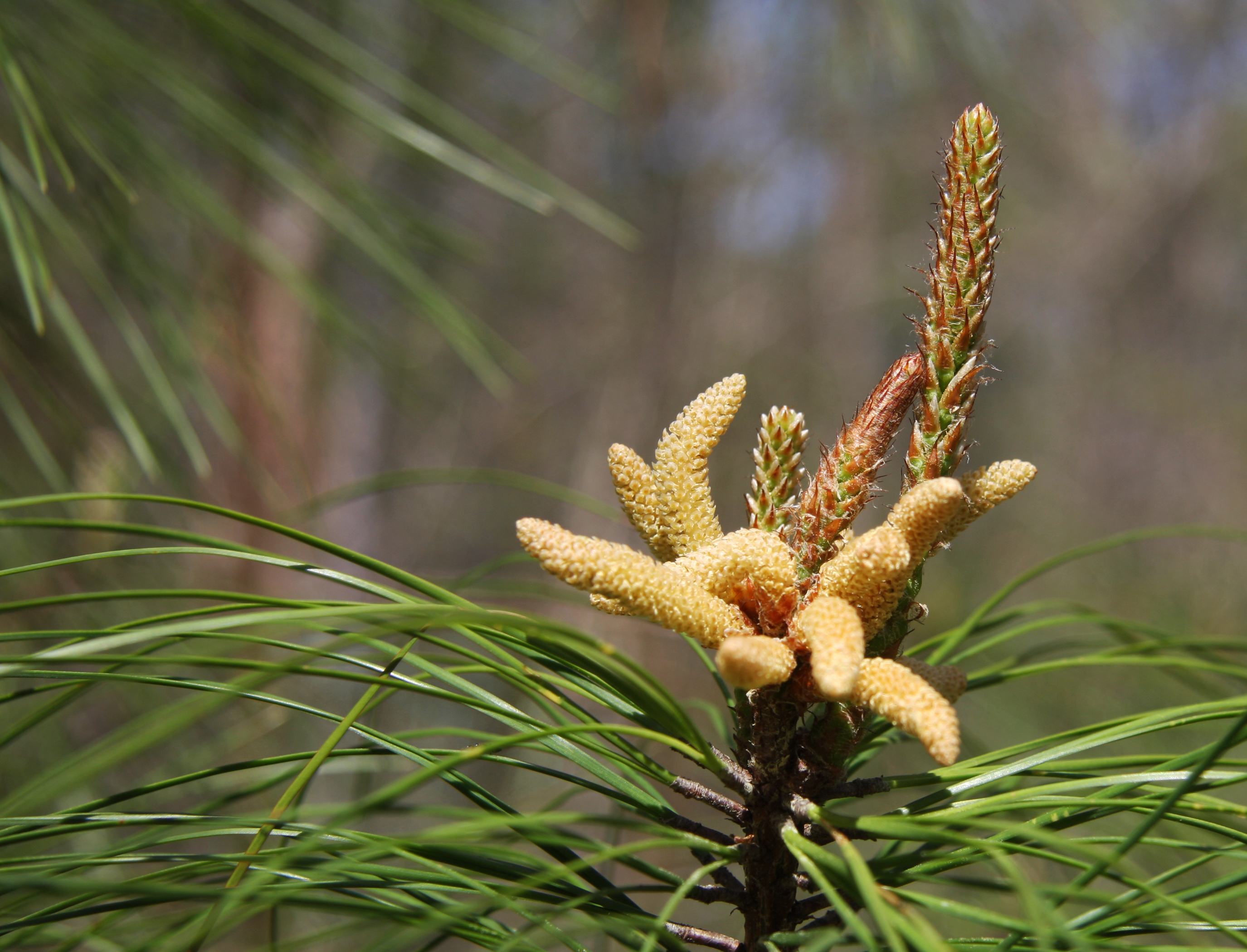 Young cones of loblolly pine (Pinus taeda), lower swirl around and below three new branch buds. Along Concrete Bridge Road, Duke Forest Korstian Division, Durham, North Carolina USA.